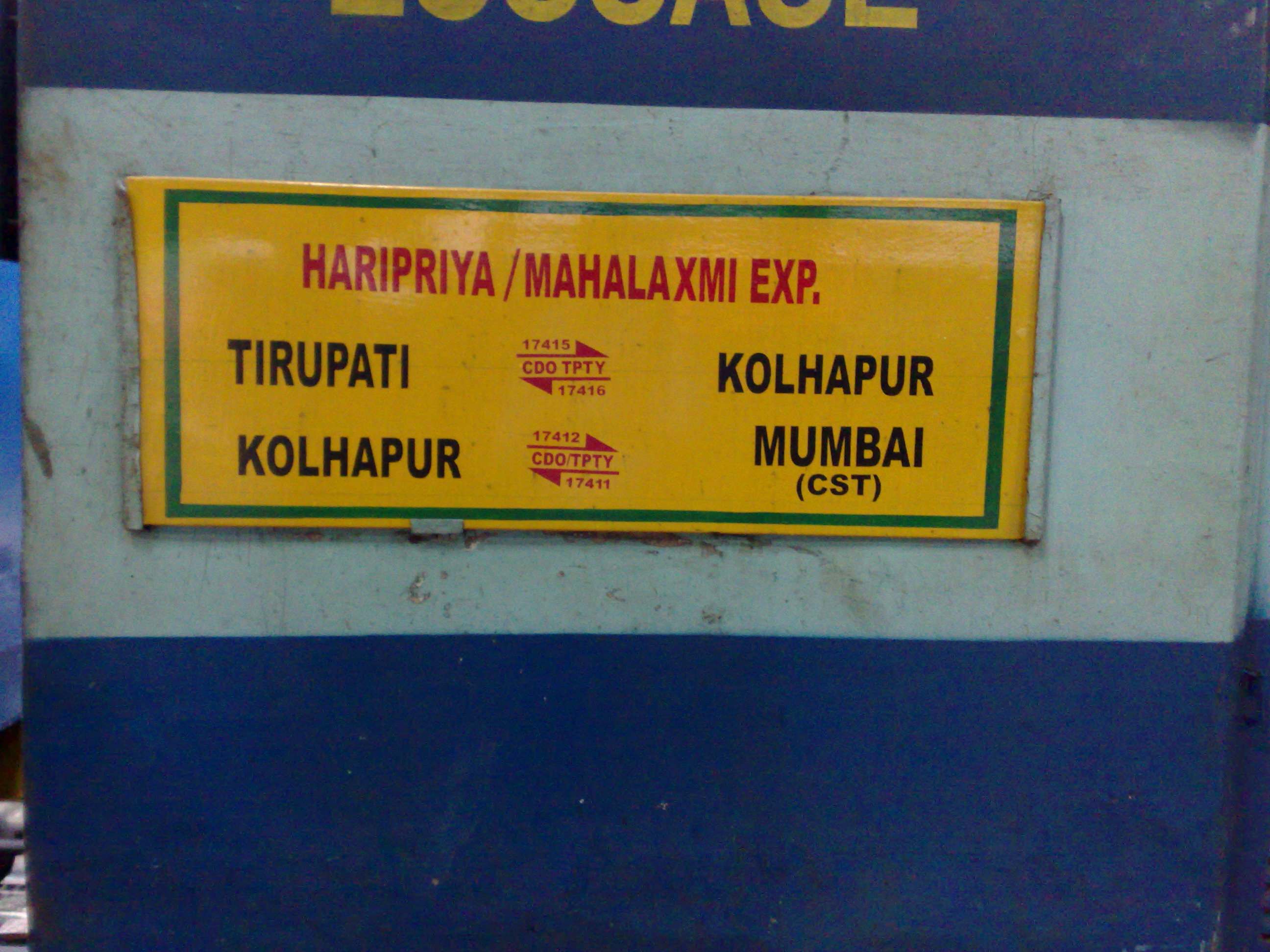 17411 Mahalaxmi Express trainboard